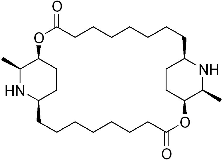 chemical structure of carpaine